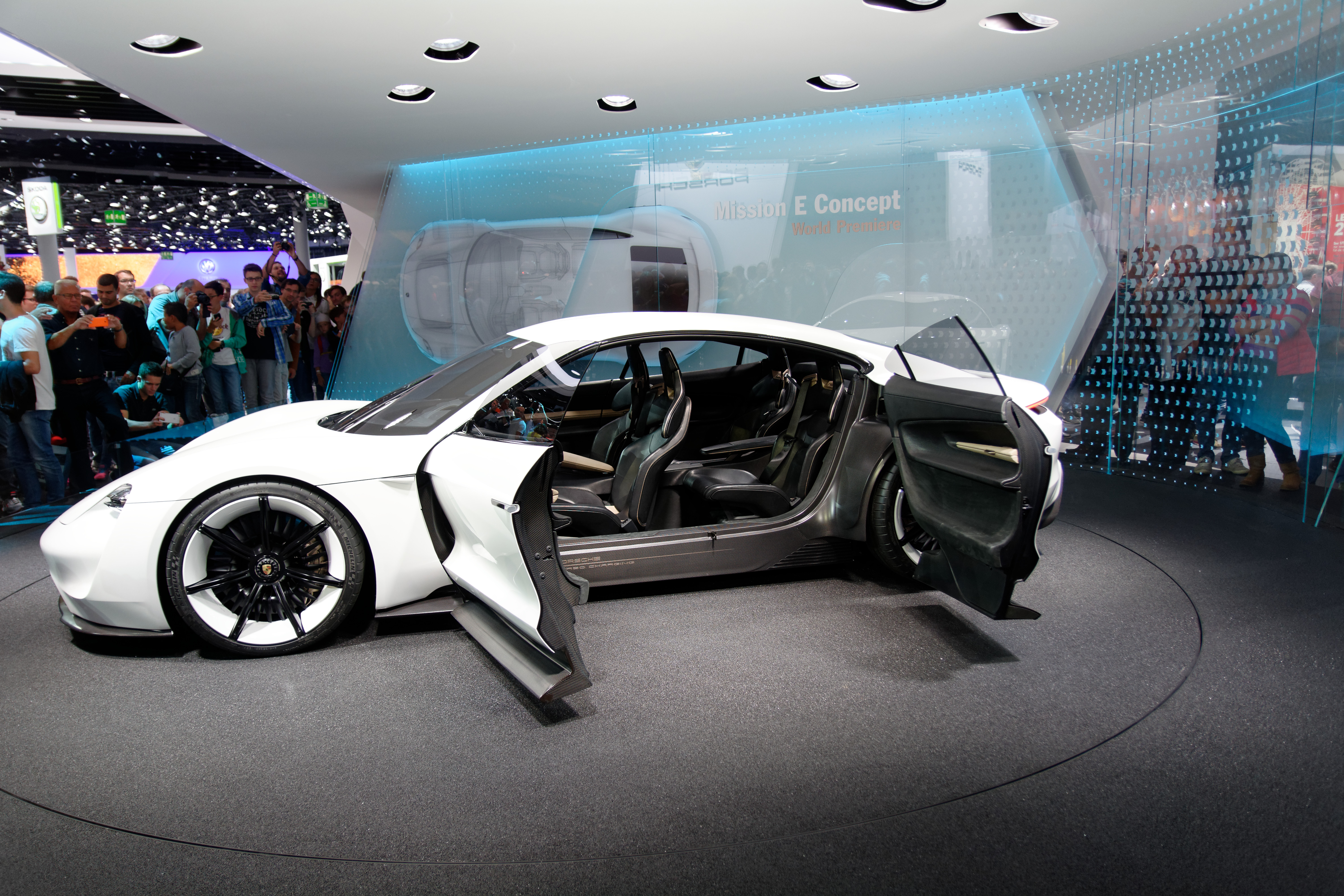 The Porsche Mission E concept car at the IAA 2015 in Frankfurt.